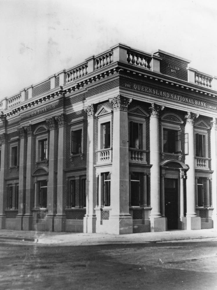 Queensland National Bank building, Maryborough Situated on the corner of kent and Richmond Streets. This building became the offices of the Burrum Shire Council from 1966 to 1976.